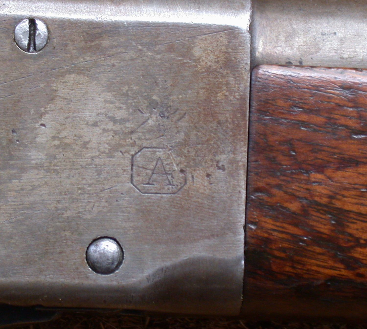 A (assembled) stamped frame of a Sharps Borchardt rifle